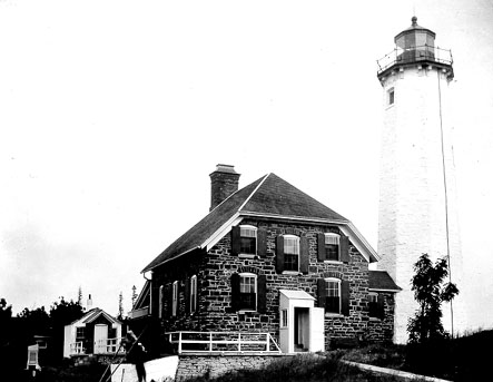 U.S. Coast Guard Archive Photo of Isle Royale Light, Michigan